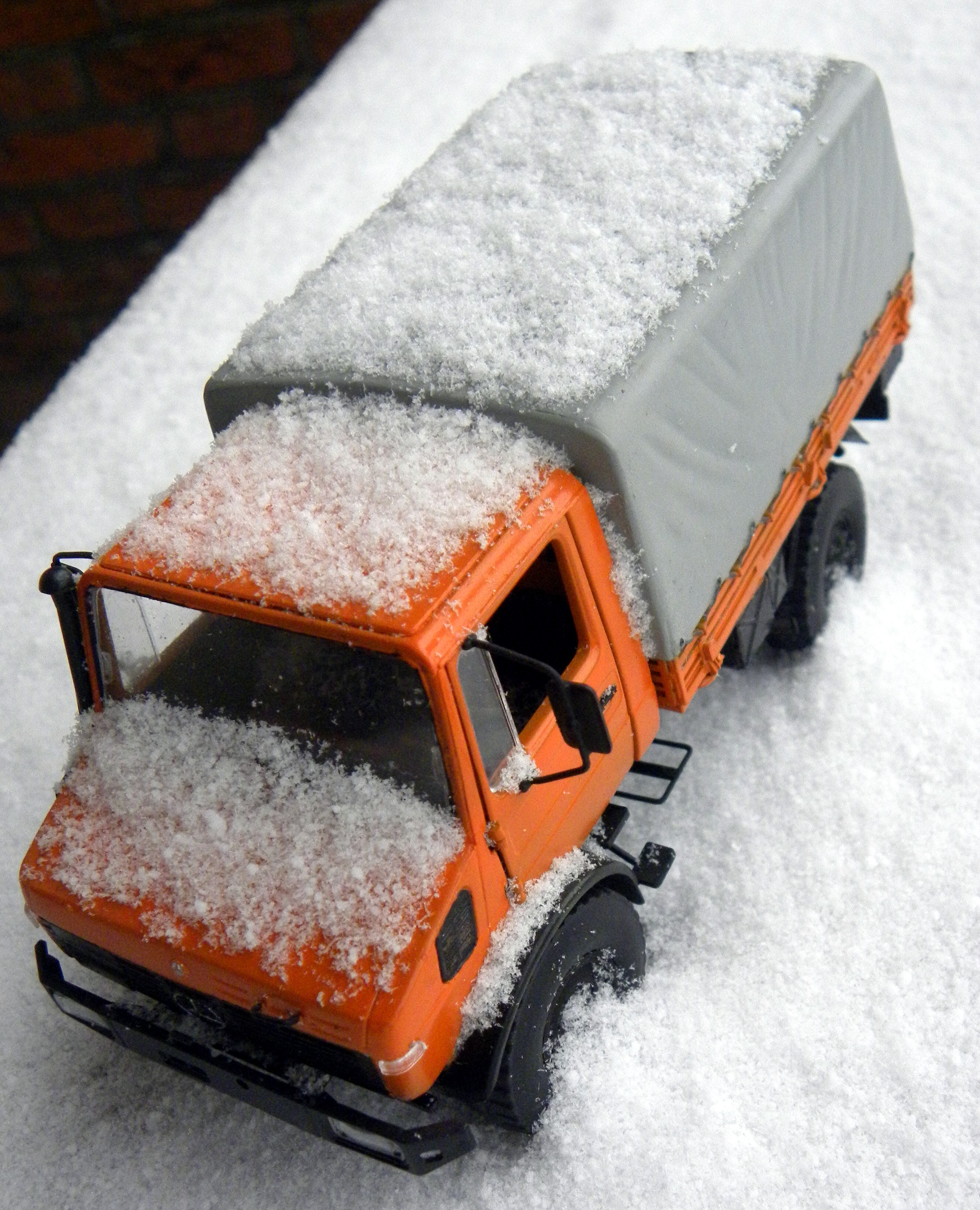 Revell 1/35 Unimog in the snow